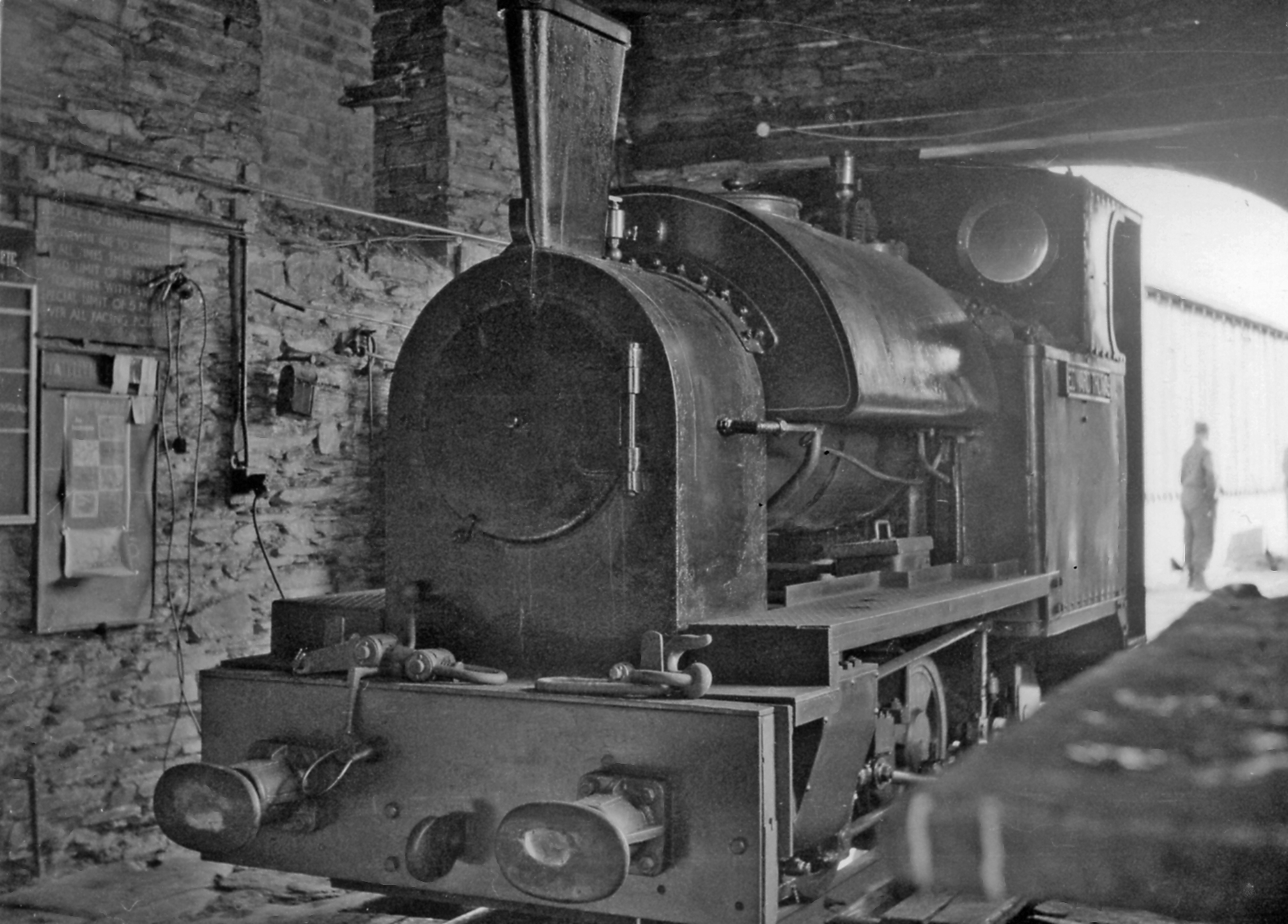 Talyllyn Railway 0-4-2T 'Edward Thomas' in Towyn (Pendre) Shed, 1962. In its 'modernised' state with Giesl ejector and chimney, fitted 1958.